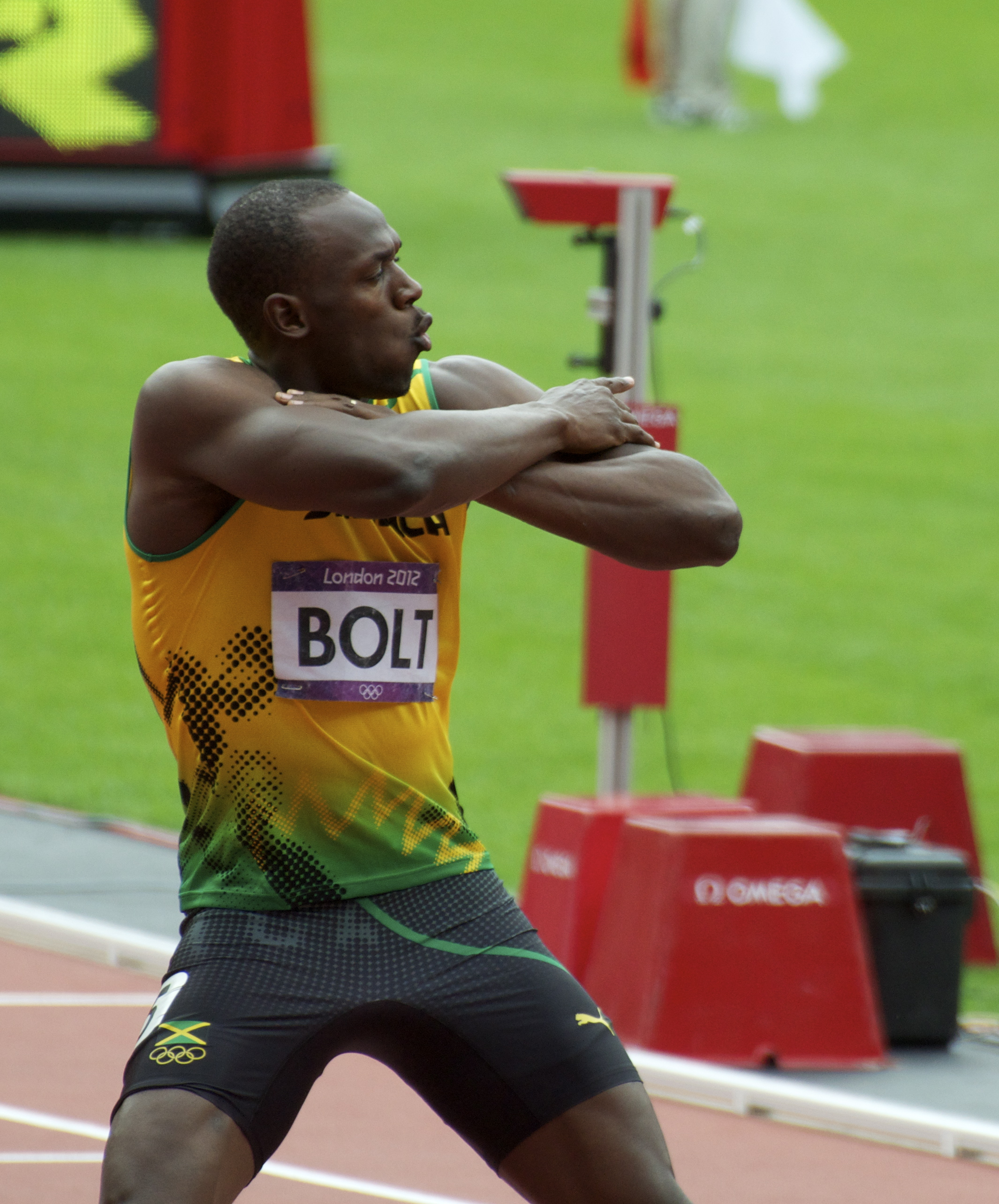 Usain Bolt at the 2012 London Olympics. This was taken during the first-round heats of the men's 200 metres.